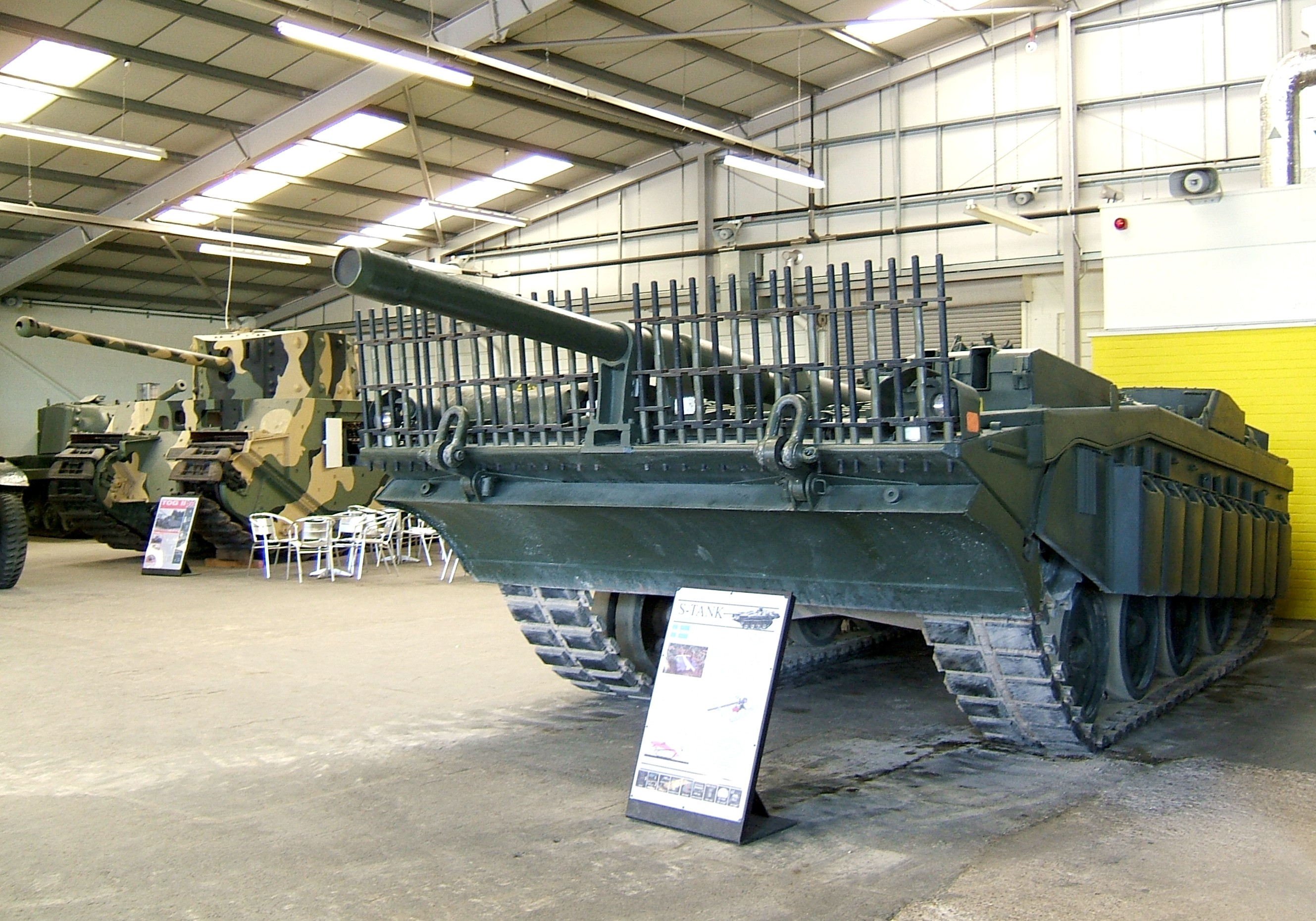 Swedish Stridsvagn 103